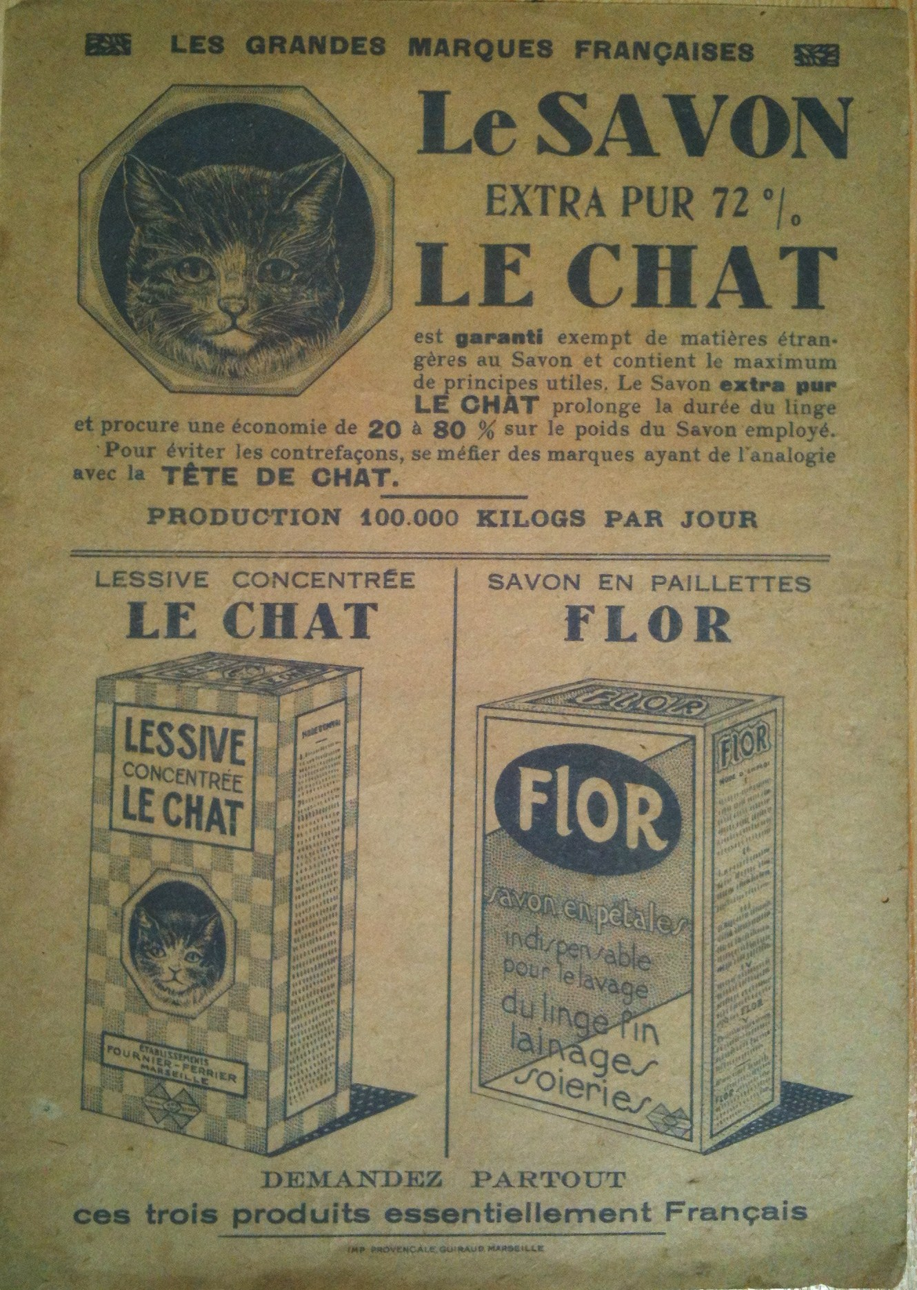 Advertising dating back to 1920